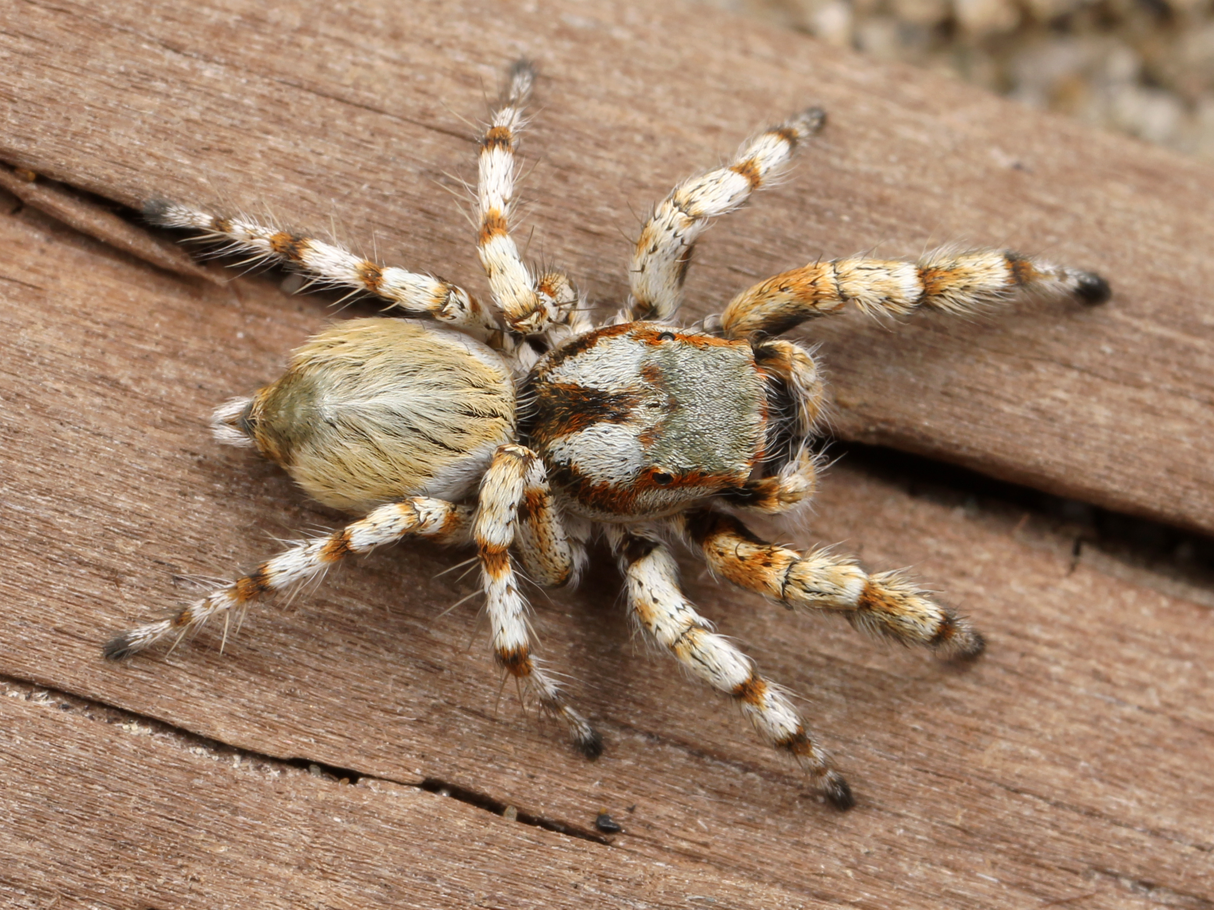 Adult male Habronattus amicus jumping spider from Limantour Beach, Point Reyes National Seashore, Marin County, California, USA. Body length is 4.9 mm.